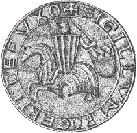 Raymond-Roger of Foix (1155-1223)